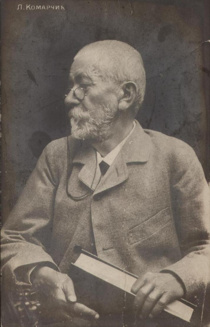 Photograph of Lazar Komarčić